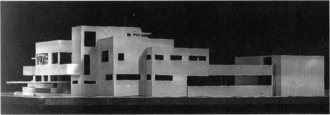 Theo van Doesburg & Cornelis van Eesteren (architects), Gerrit Rietveld (model). Hôtel Particulier, model. 1923. Photo. Rotterdam, Netherlands Architecture Institute.